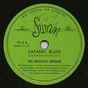 Swan Records 78 gramophone record label (of a band with Phil Napoleon).